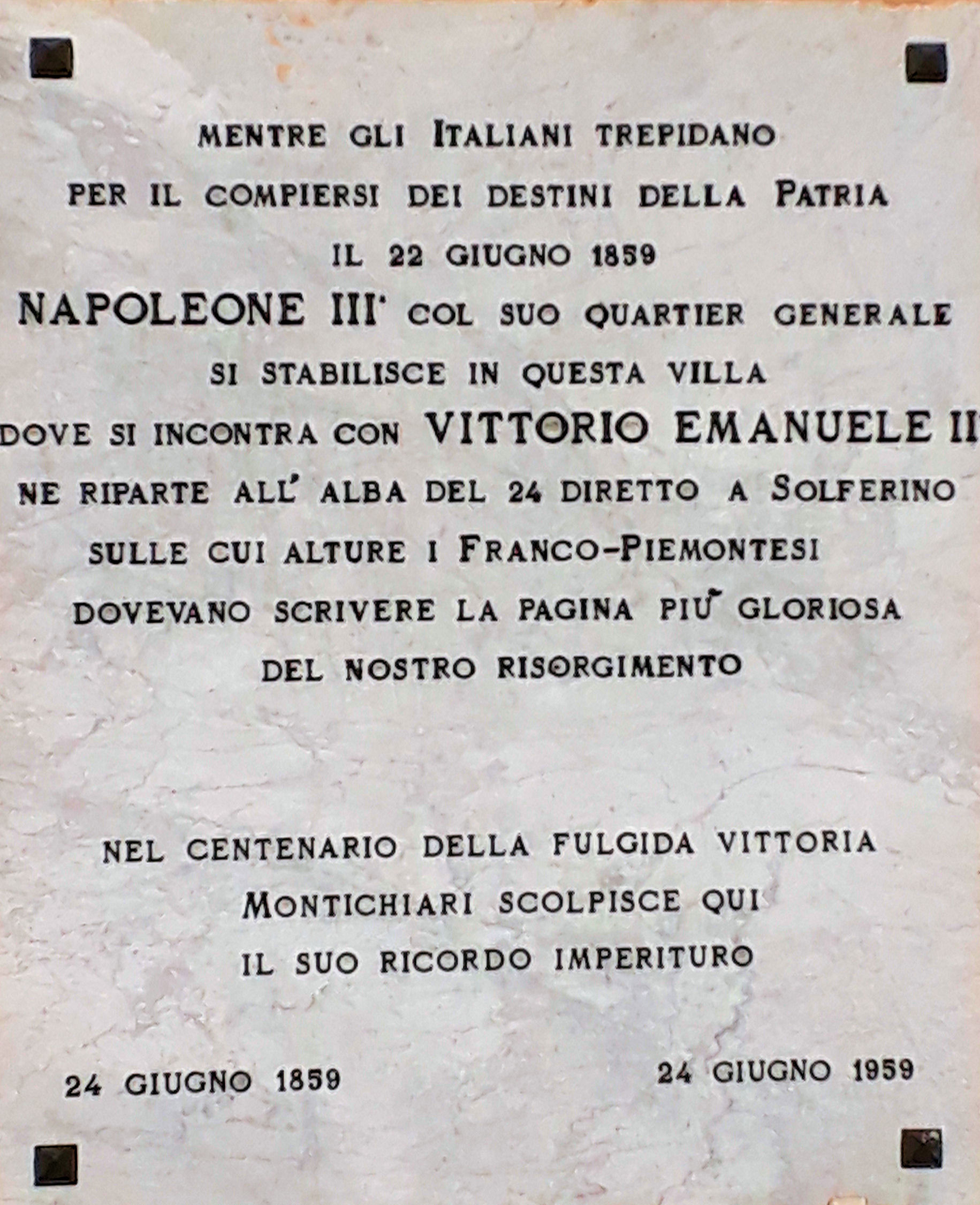 Montichiari, plaque on Mazzucchelli Palace.